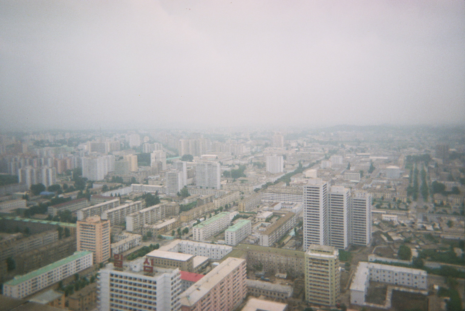 A part of Pyongyang from above